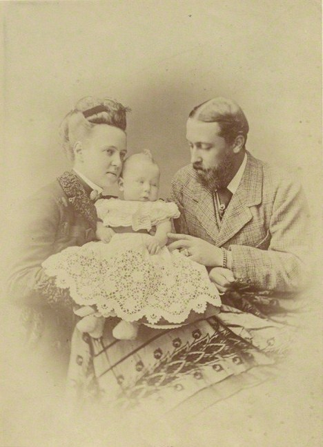 Prince Alfred and Princess Maria Alexandrovna with their newborn daughter, Missy. The factual accuracy of this description or the file name is disputed.Reason: Please see the relevant discussion on the talk page.